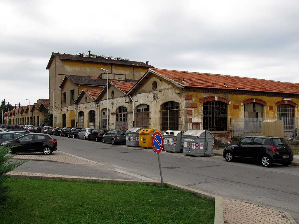 Former Pirelli factory, Livorno